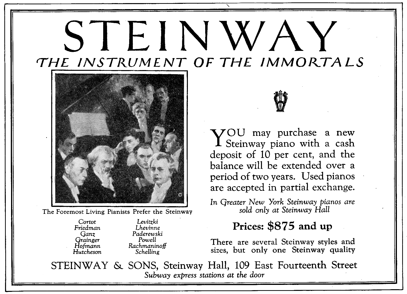 Steinway piano display advertisement